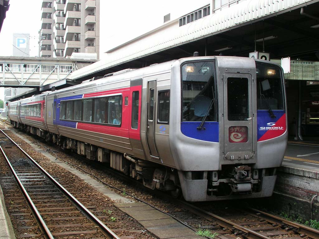 JR Shikoku type N2000